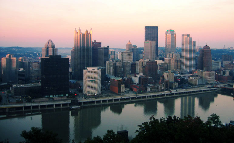 Downtown Pittsburgh